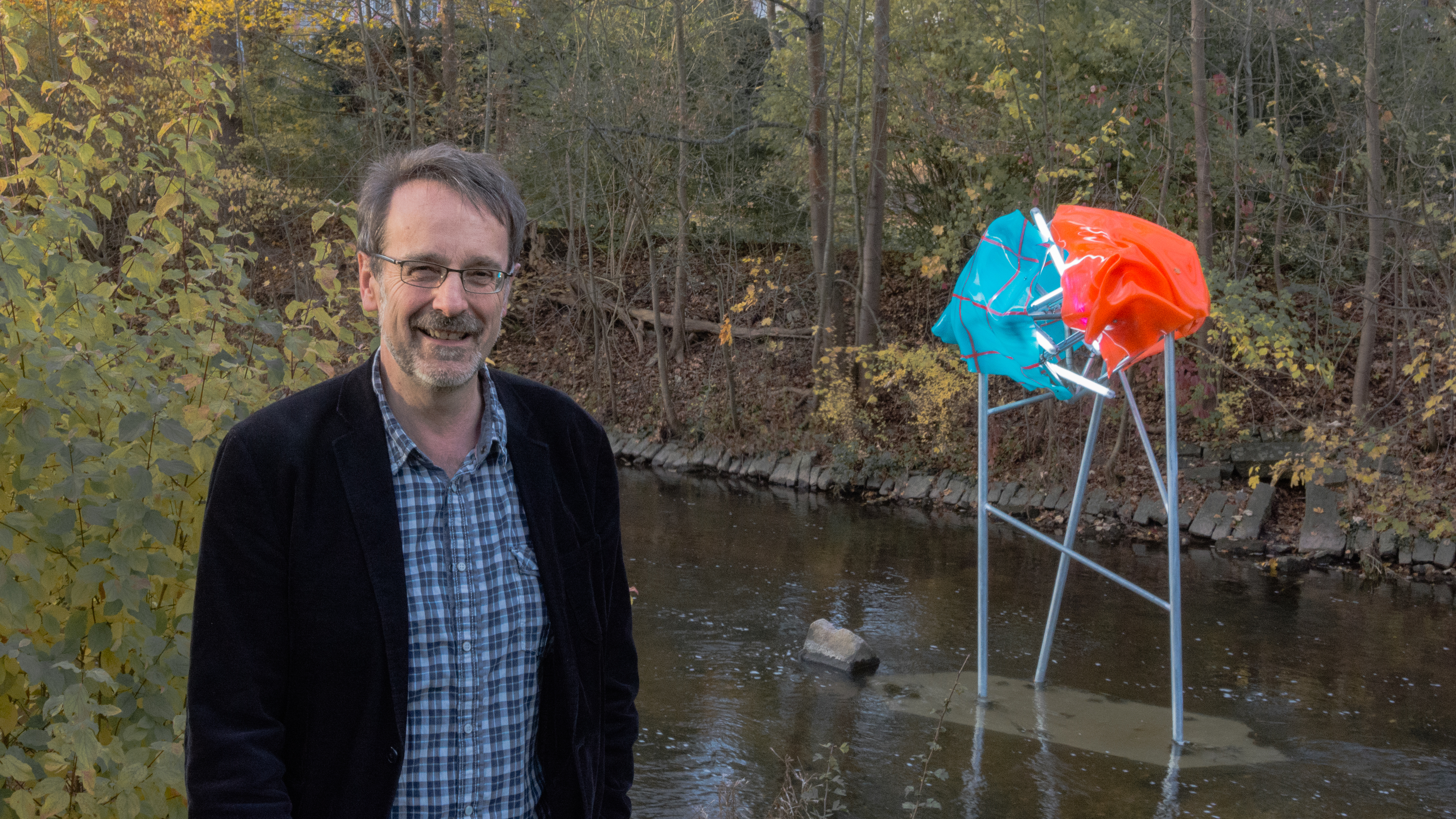 Exhibition opening Museum Biedermann, Donaueschingen, Germany